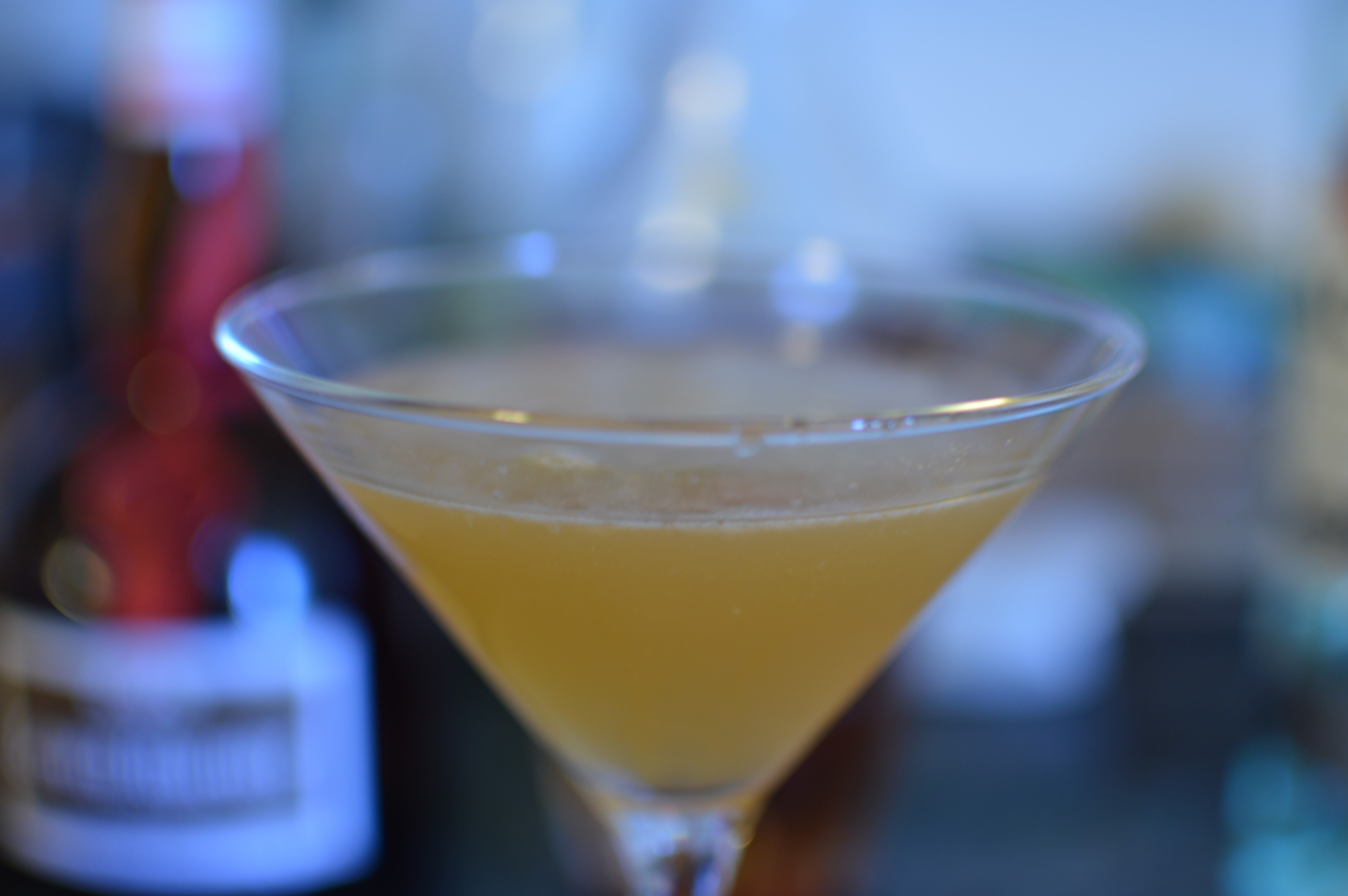 Between The Sheets cocktail made at home